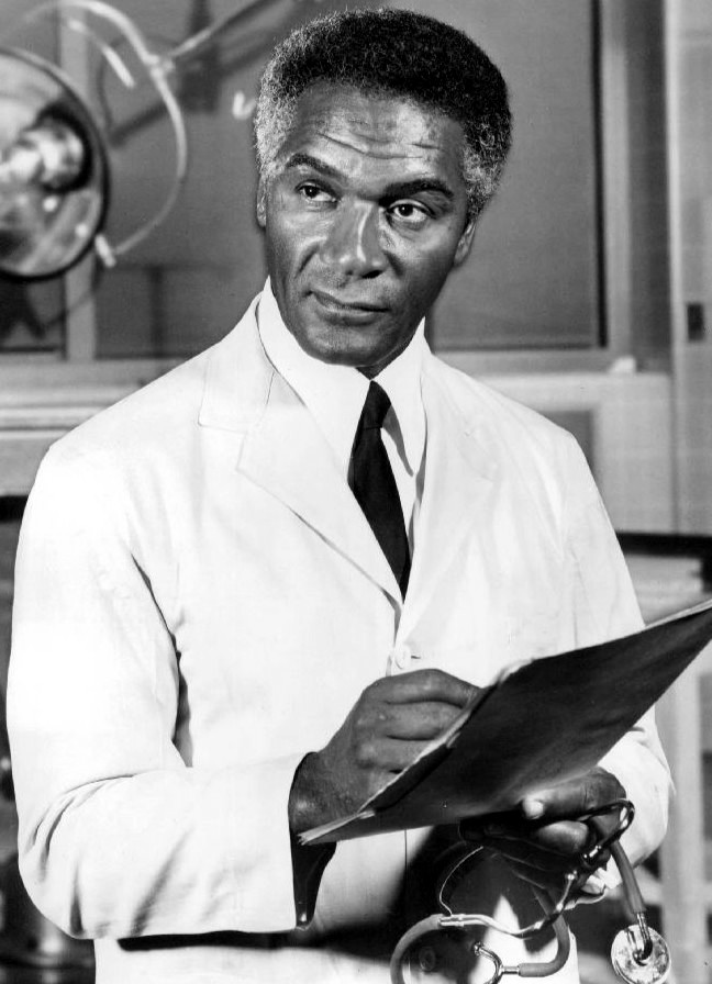 Publicity photo of Percy Rodriguez as Dr. Harry Miles from the television program Peyton Place.